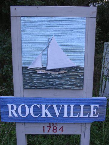 Sign entering Rockville, South Carolina